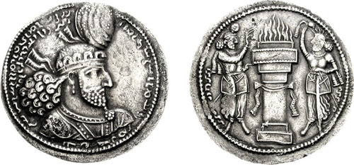 Coin of Hormizd i, Sasanian king (270/272–273)